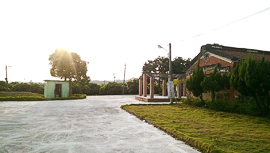 莊家古厝外埕